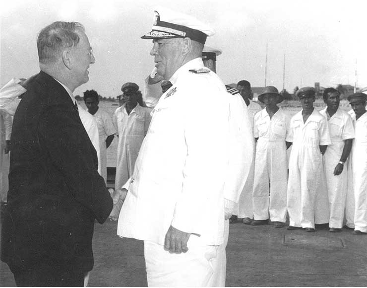 Vice Admiral Jonas H. Ingram, USN, during Secretary Knox's visit to Brazil in mid-1943